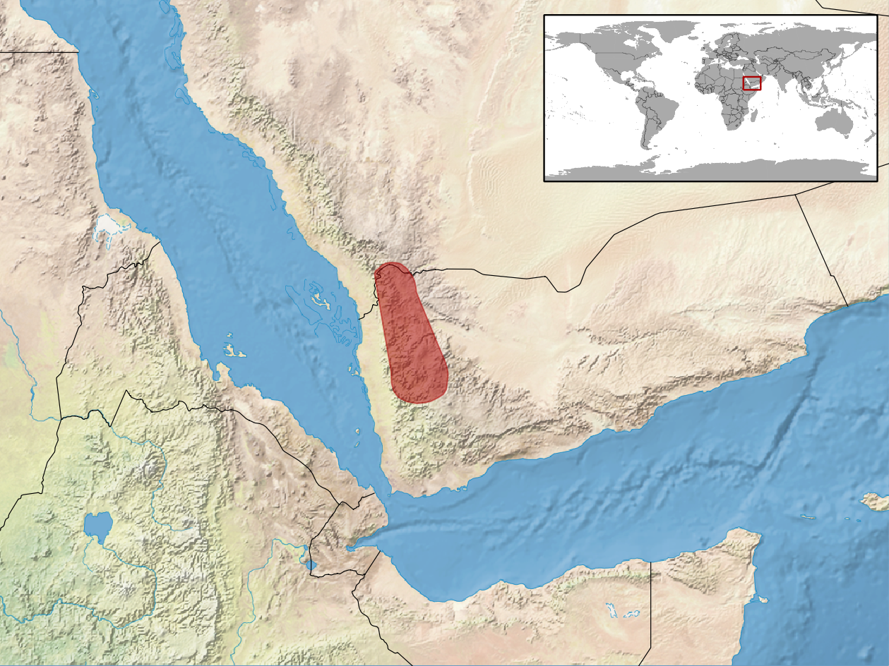 geographic distribution of Acanthocercus yemensis